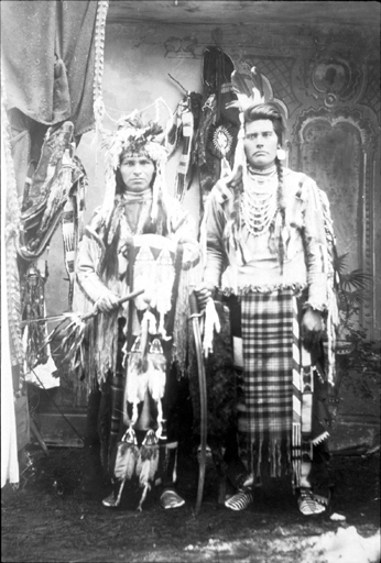 Title: Nez Perce chiefs in war dress, Camas Prairie, Idaho, ca. 1899 Date: ca. 1899 Notes: Studio portrait of two chiefs (Edward Gould on right) wearing full war attire including feathered headdresses and breechcloth. One holds a sword. Caption on photo: Nez Perce chiefs dressed in fancy war suits. Collected while at Camas Prairie, Id., 1899 Subjects: Group portraits--Idaho Nez Perce Indians--Clothing & dress Tribal chiefs Location Depicted: United States--Idaho--Camas Prairie Negative Number: L97-18.10 Collection: F. Young Repository: Northwest Museum of Arts and Culture Restrictions: University of Washington Digital Collections